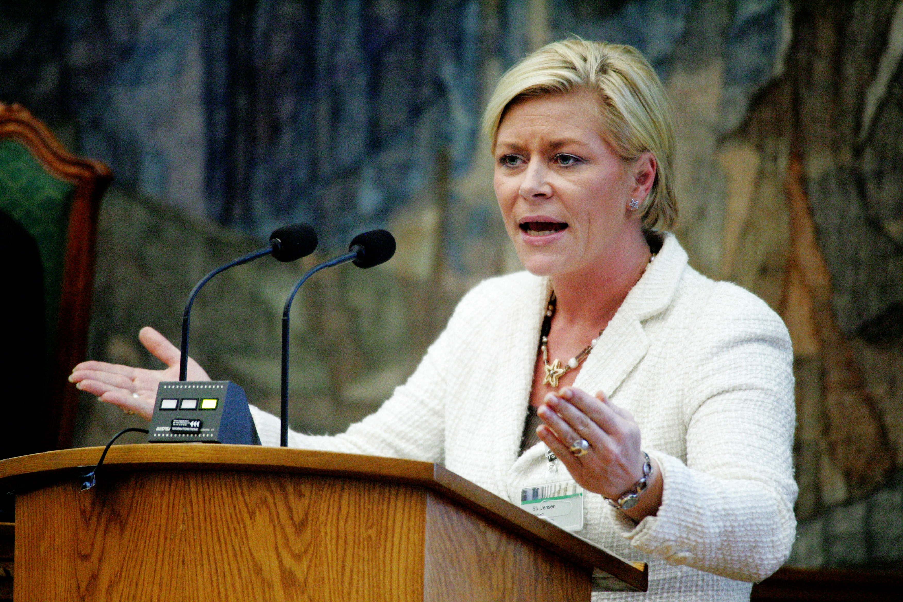 Siv Jensen, partiledare Fremskrittspartiet Norge, talar under Nordiska rådets session i Köpehamn 2006.